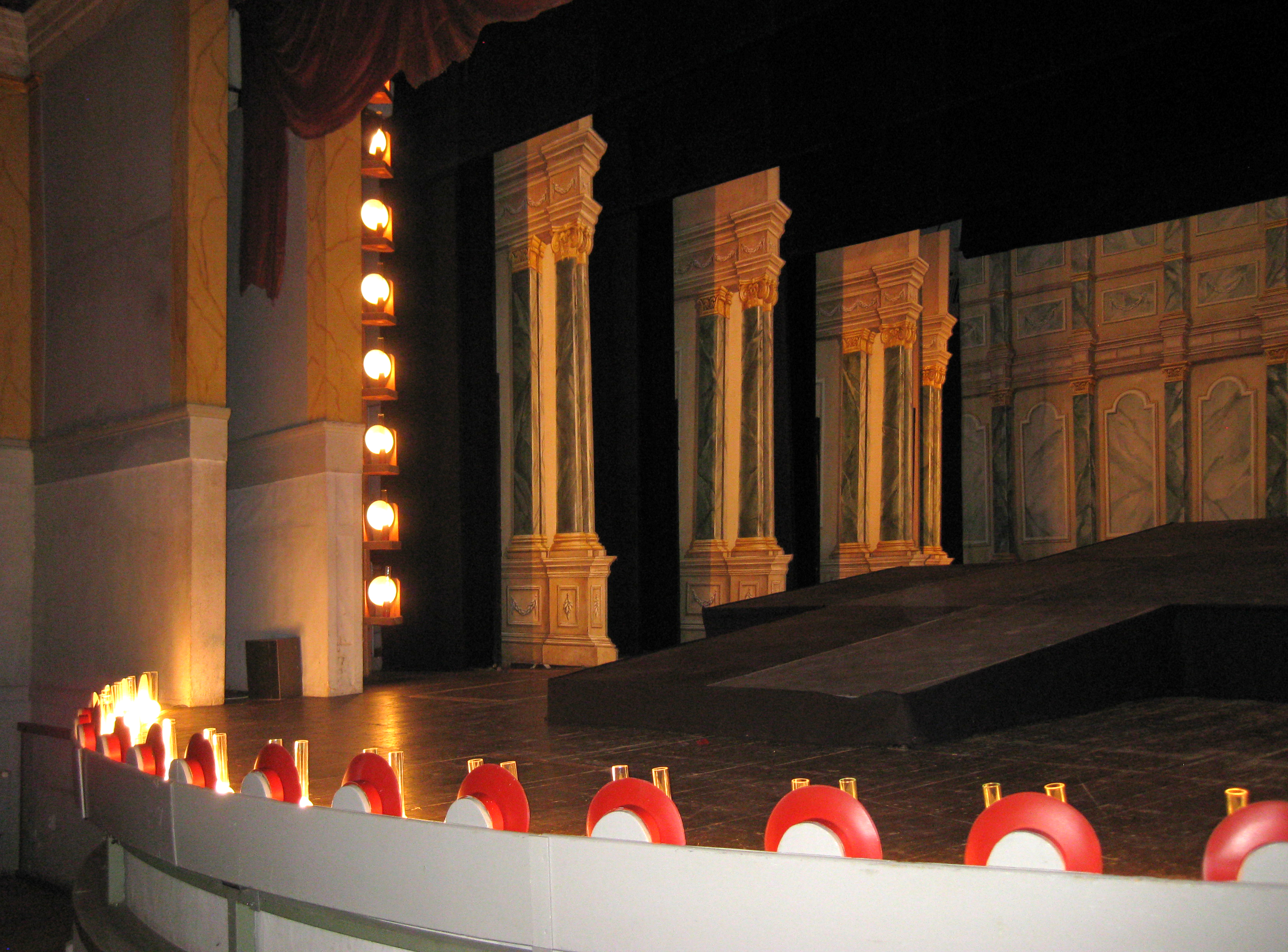 The historical Goethe Theatre Bad Lauchstädt (Germany)